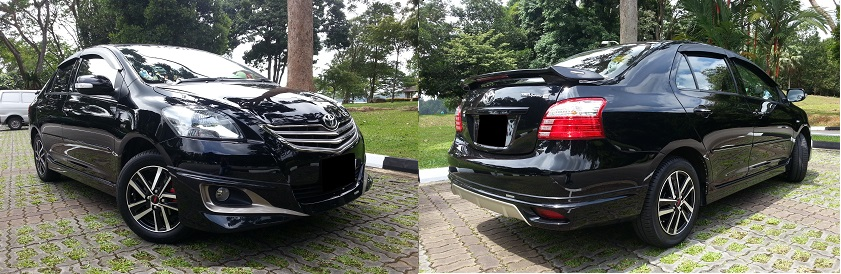 Vios in Singapore in 2013 with original TRD body kit and 15" RIM